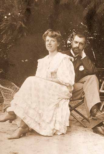 Yury and Elena Stravinsky. Pechiki Estate, 1907